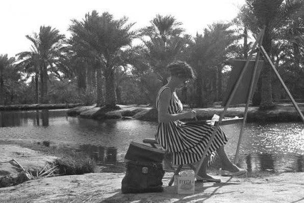 Agatha Voorbrood settles herself before her easel to paint a Safwa lake Scene (Ain Daroosh), December 11, 1957.